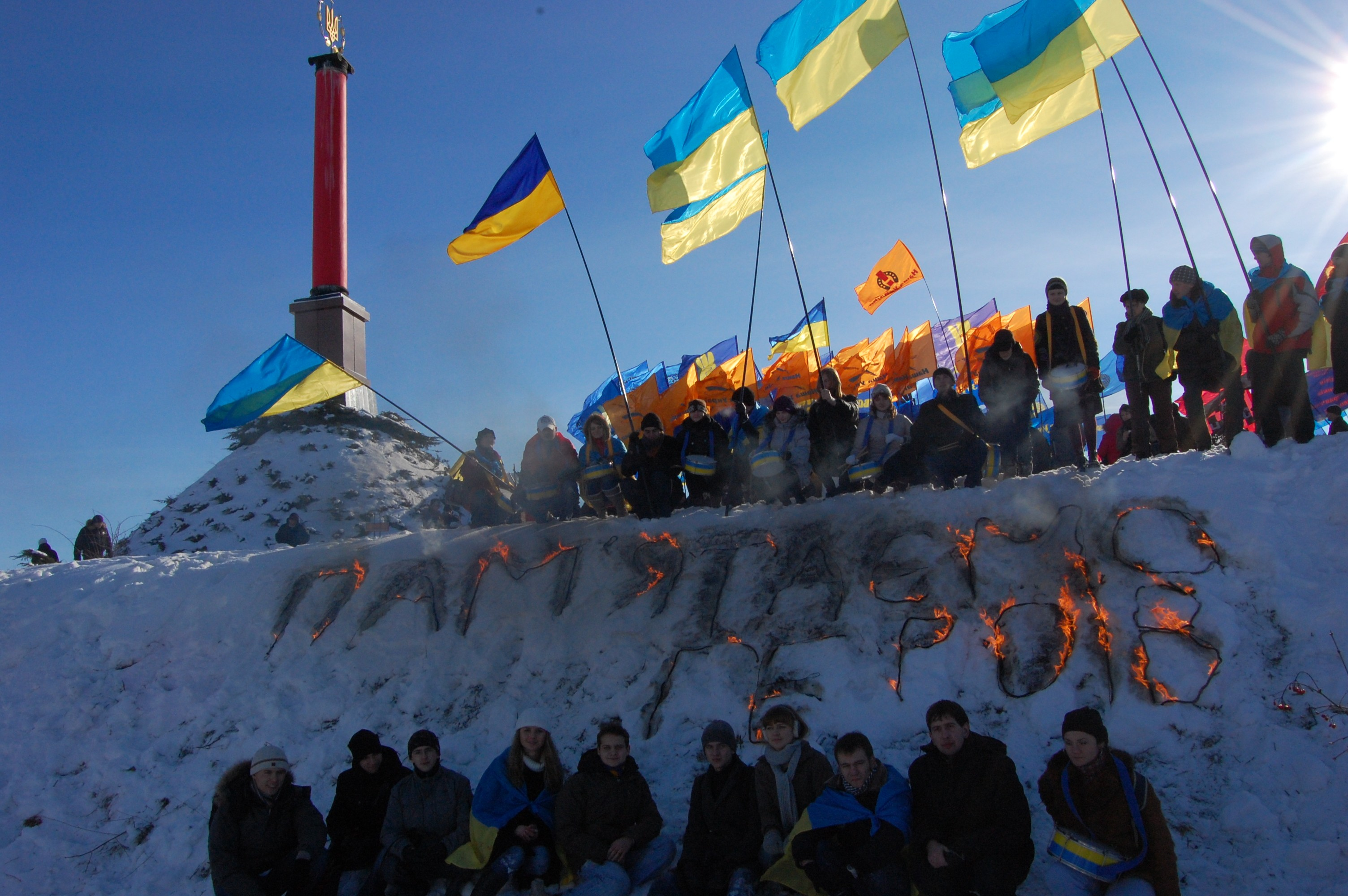 Picture made by activist of "Vidsich". It is in the public domain in accordance with the principle of "Vidsich" "Copyleft" [2].